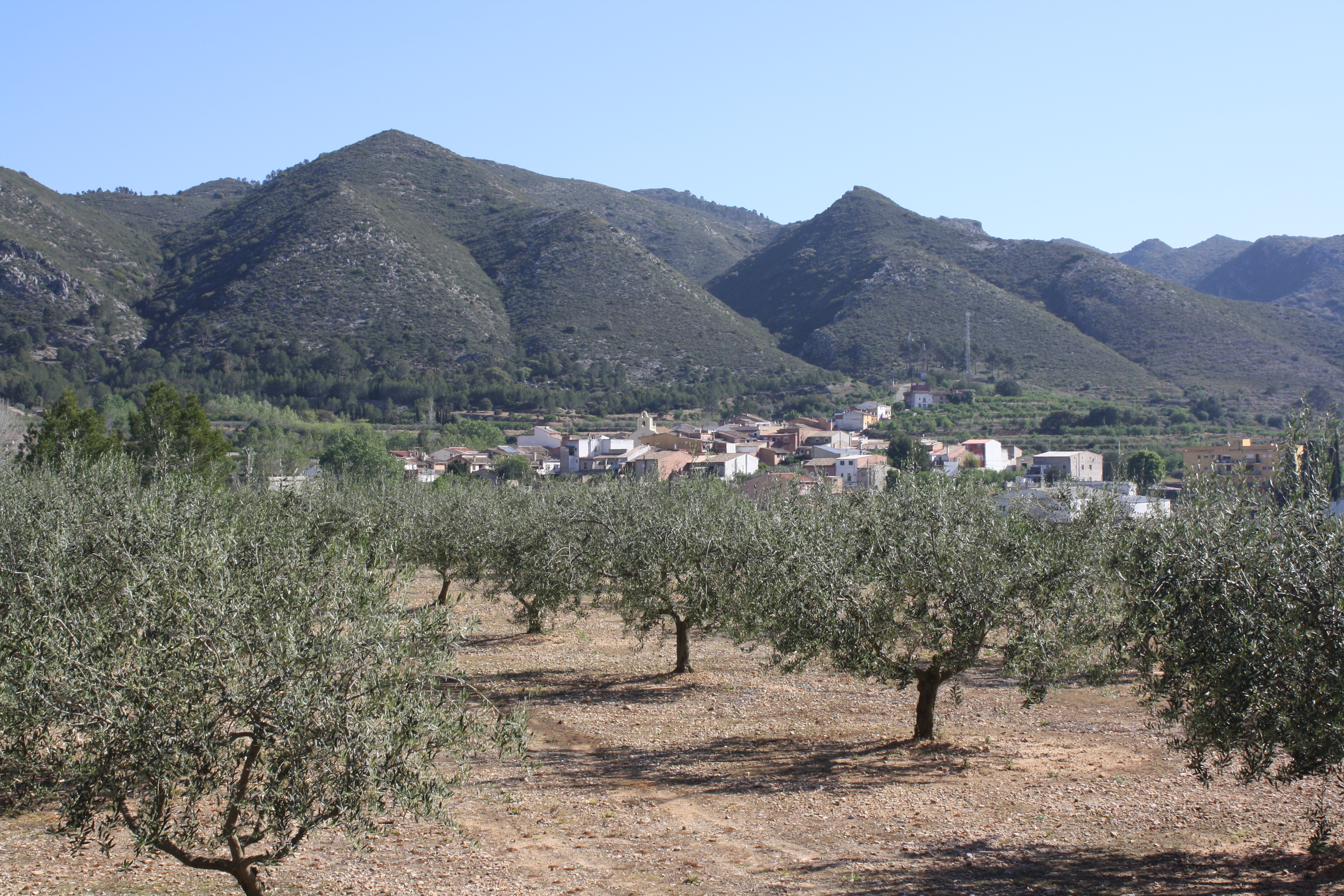 Olive trees 1, Pinet, Valencia